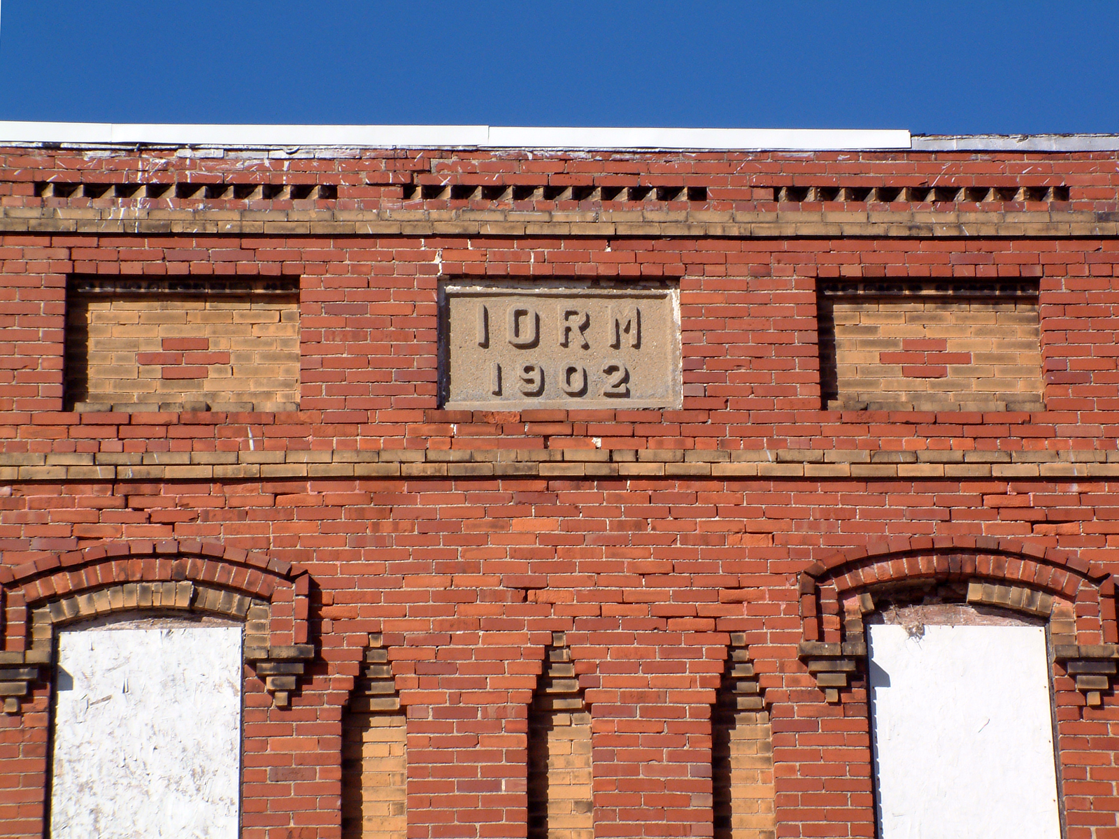 A brick building along High Street in the town of West Lebanon, Indiana, bearing a stone identifying it as a meeting place of the Improved Order of Red Men (IORM).